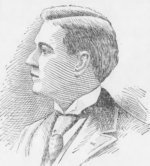 Robert G. Cousins (Iowa Congressman)